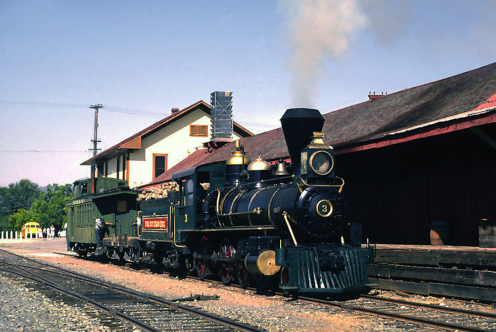 September 1964 Sierra 4-.6-0 #3 is in front of the now gone Jamestown depot after being used in the filming of the pilot episode of "The Big Valley"